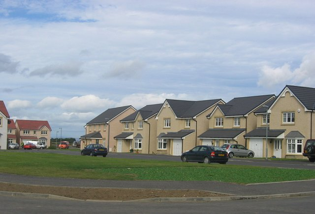 Greendykes Road, Macmerry. Finished bit of a big new housing development.